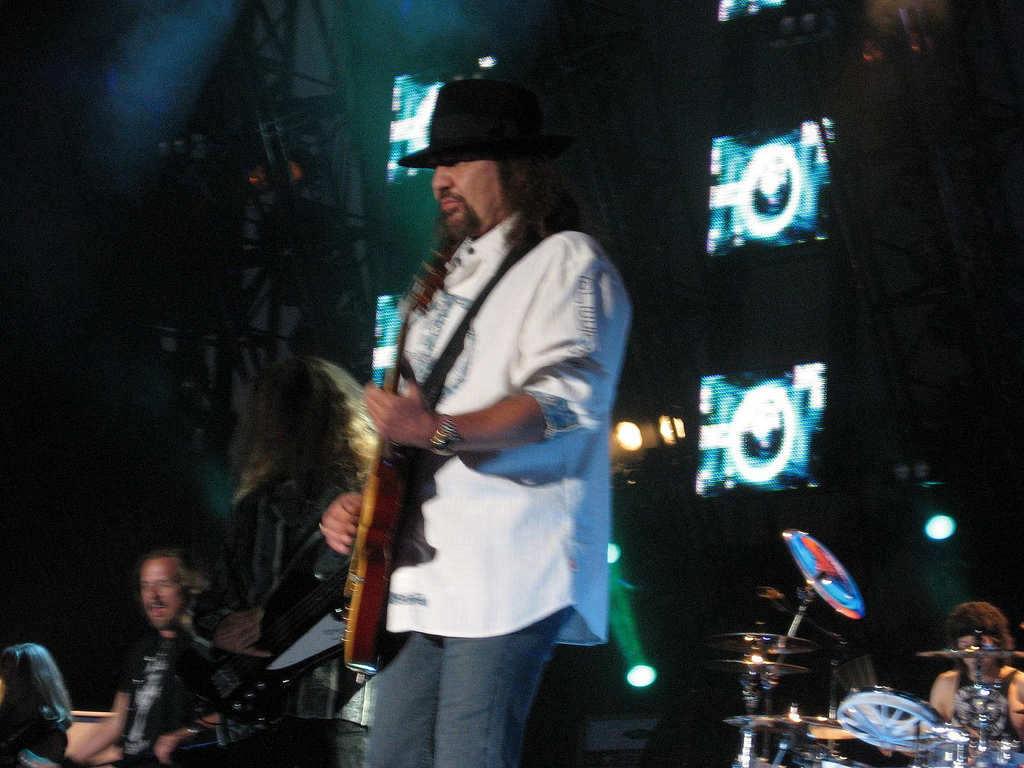 Lynyrd Skynyrd in concert - New Brockton, Alabama, June 7, 2008